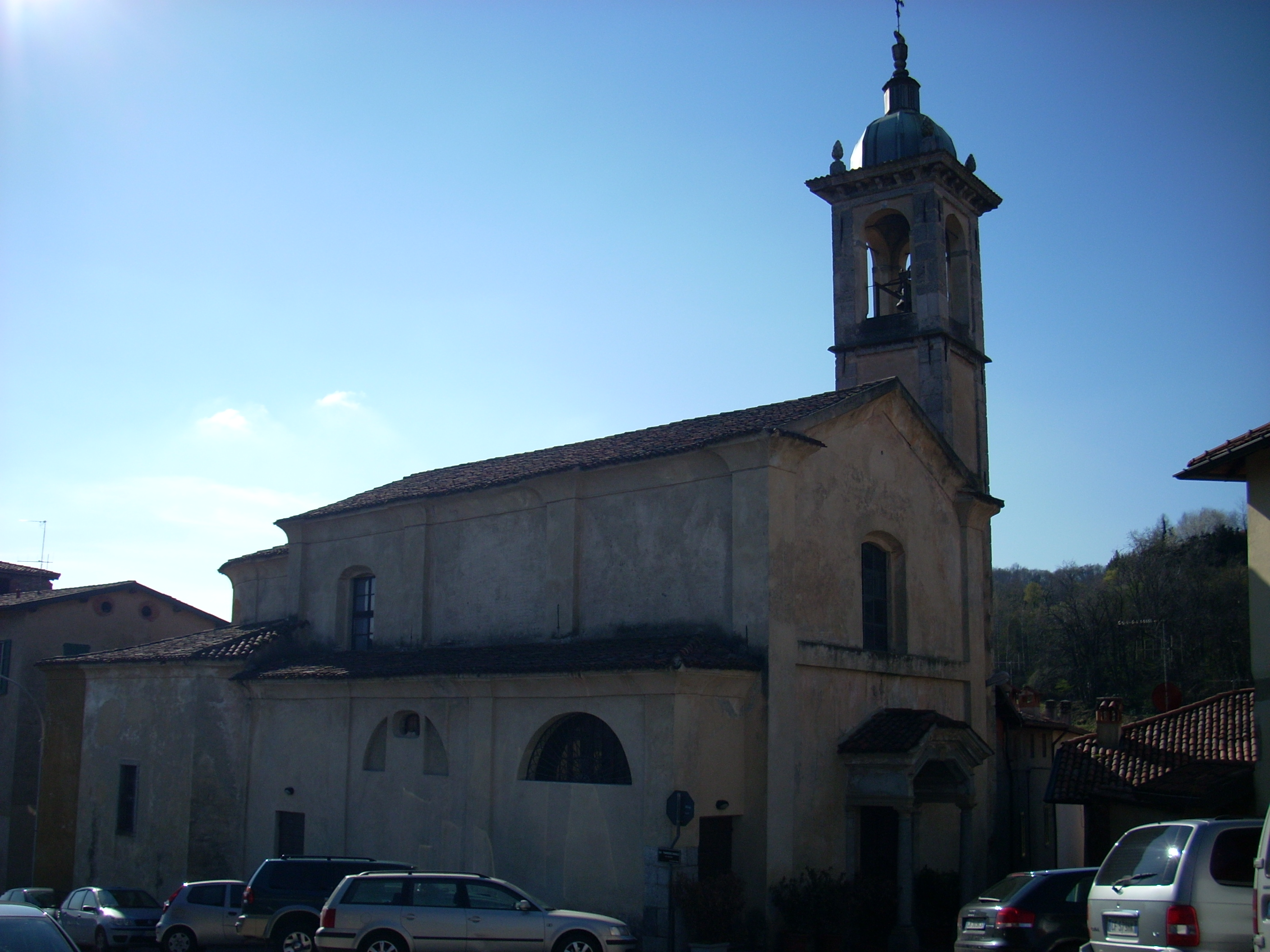 Former Church of San Giovanni Evangelista, Perego, Lecco, Italy